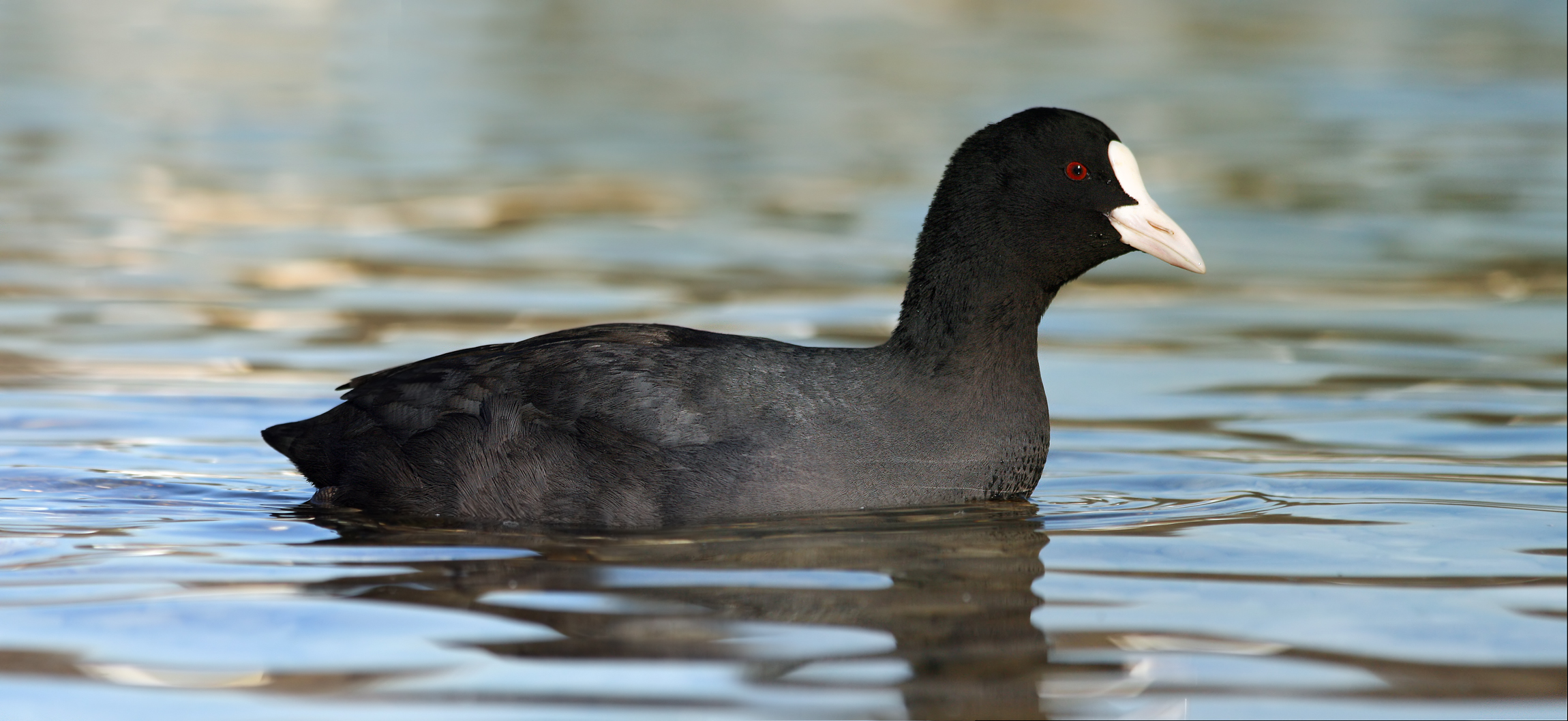 Description: The Eurasian Coot Fulica atra, or known as Coot, is a member of the rail and crake bird family, the Rallidae.